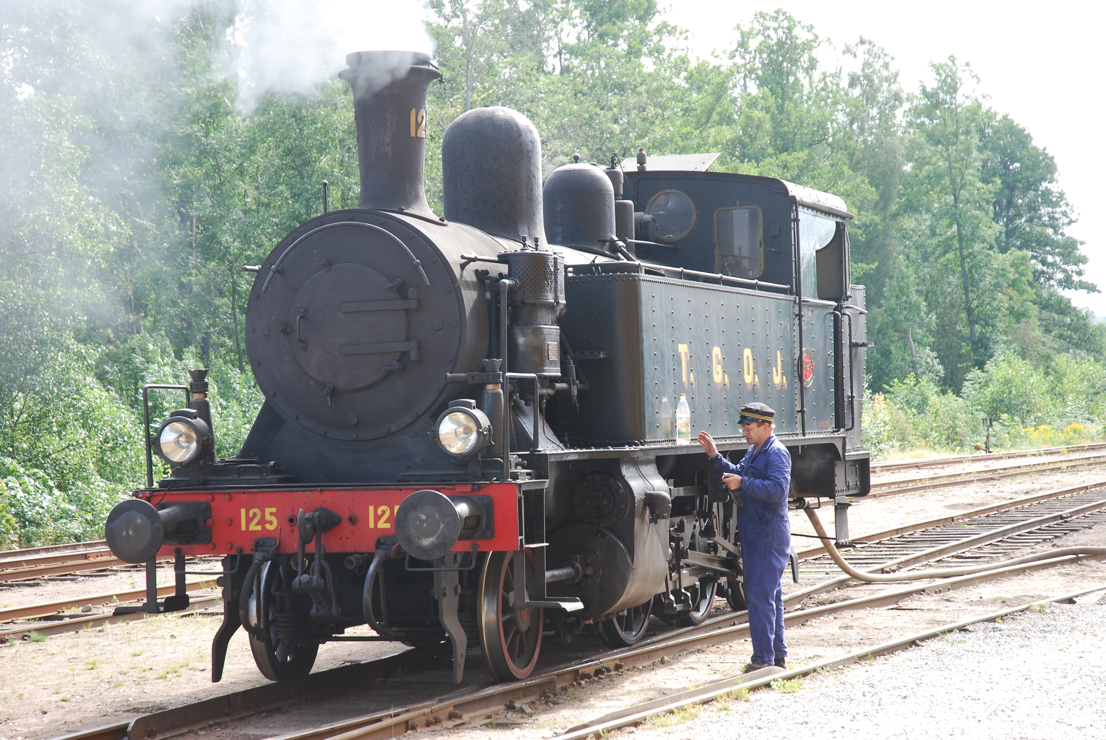 Steam engine TGOJ No 125, Littera Y3a, manufactured by NOHAB (Nydqvist & Holm), Trollhättan, Sweden in 1908, decommissioned in 1966. The engine is now owned and run by NBJV (Nora Bergslags Veteran-Jernväg). The engine is photographed at the premises of NBVJ at Nora, Sweden.